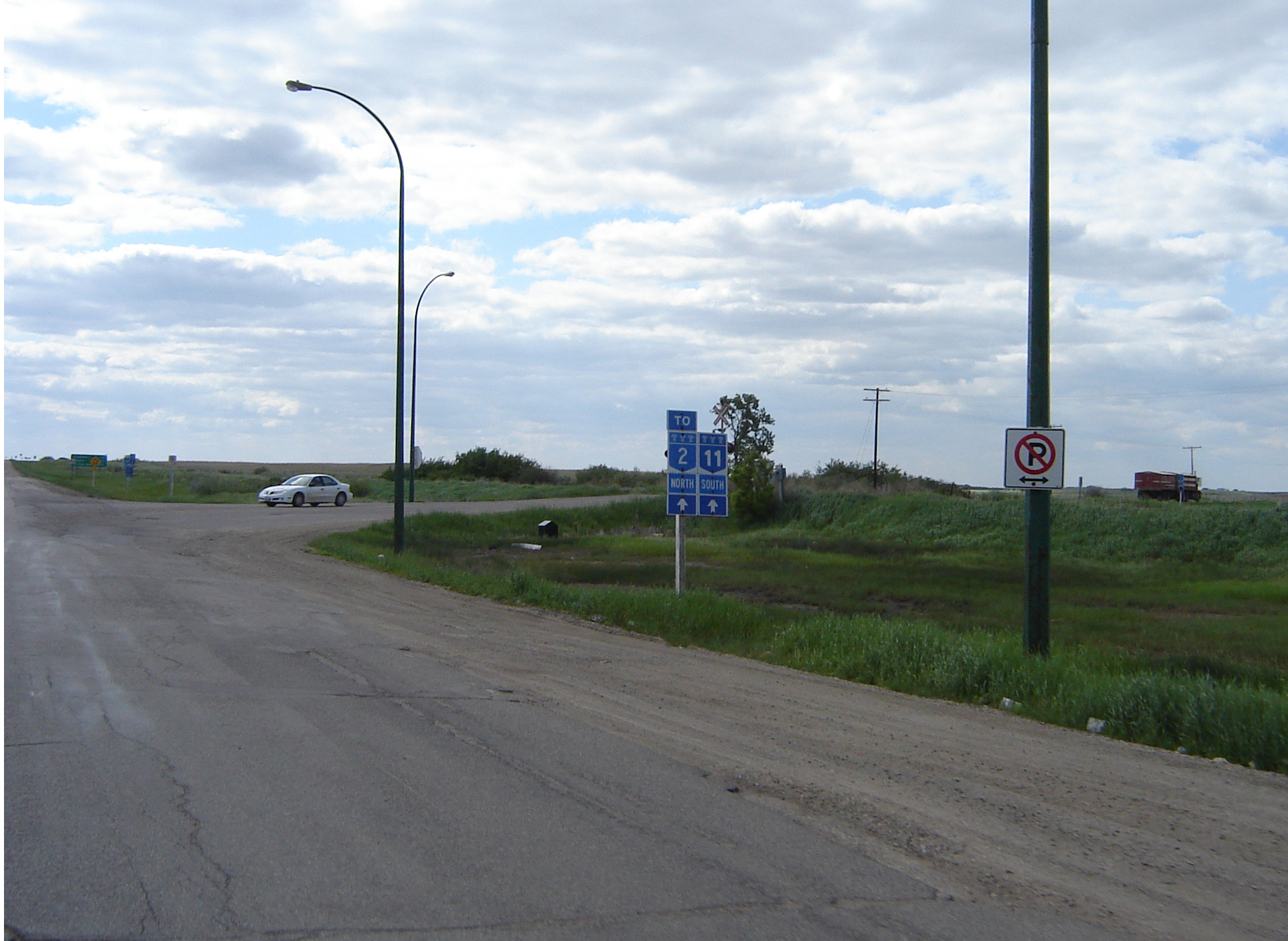 Saskatchewan Highway 11, South Saskatchewan Highway 2, North Taken from Saskatchewan Highway 11, Louis Riel Trail travelling south from Saskatoon to Regina